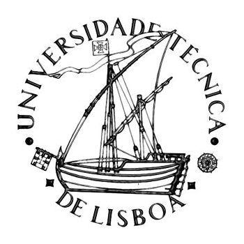 Logo of the Technical University of Lisbon